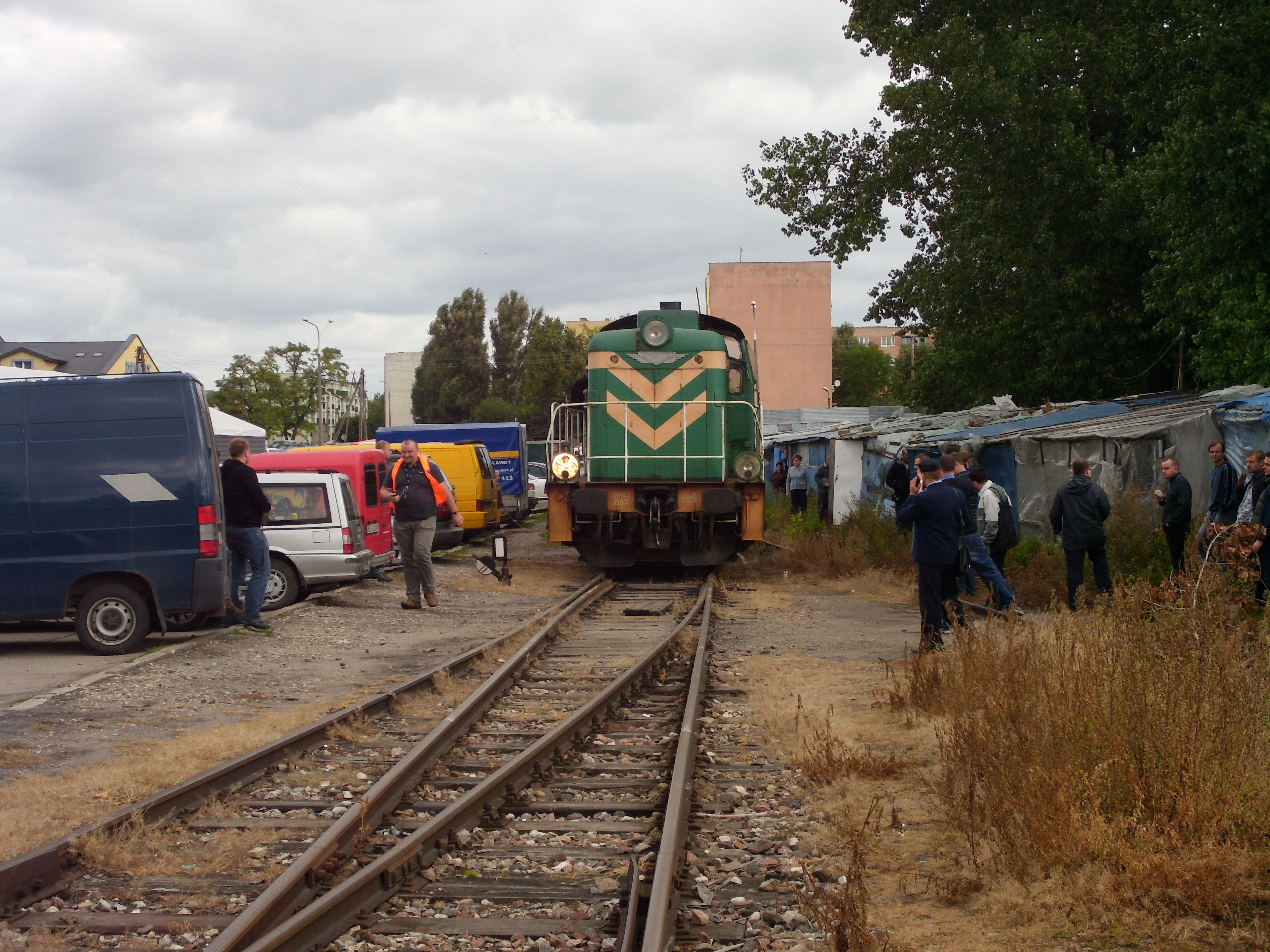 An engine of a tourist train at the end of track in Łomża, Poland, on a route from Śniadowo.